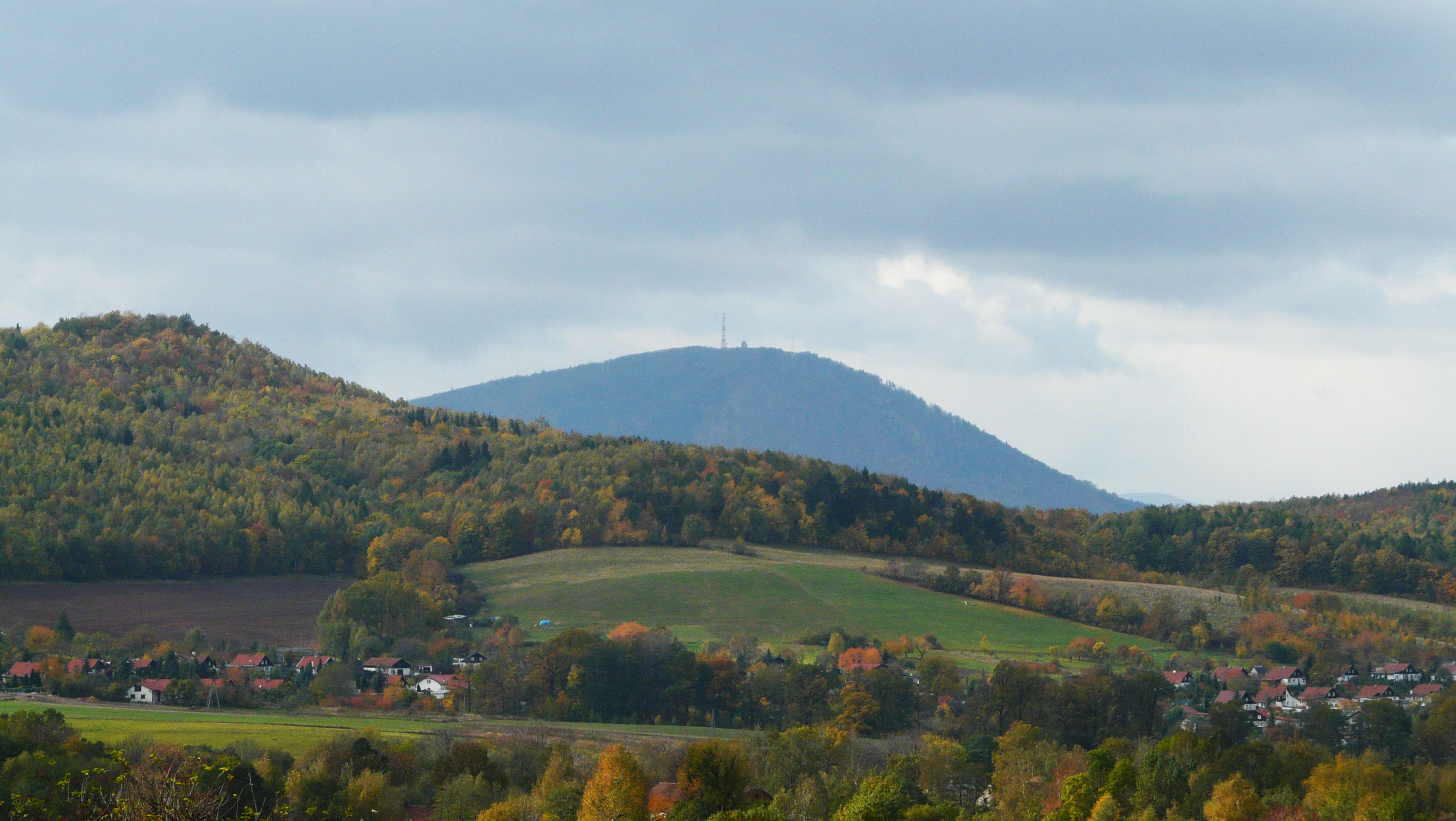 Wałbrzych, Poniatów district, in the background Chełmiec mountain